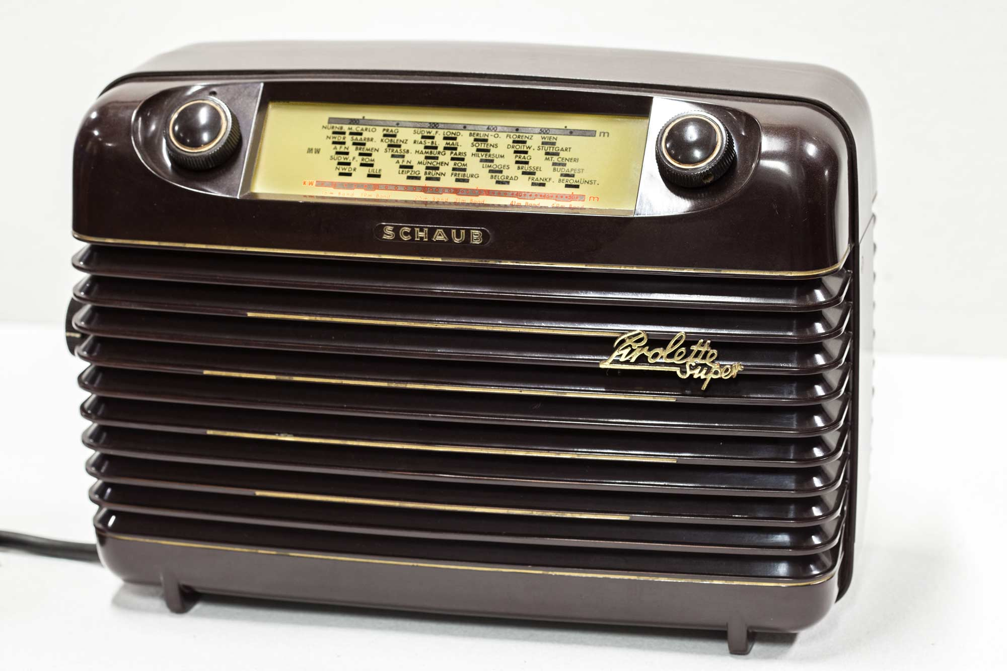 Schaub Pirolette Super, radio receiver with tubes, 1951/52 (a similar earlier version was released in 1949/1950). Museum für Kommunikation, Frankfurt, Germany. The Pirolette series look like portable radios, but they weren't. These were mains-powered radios employing just two tubes. This cost-saving was made possible (a) by using combination, multi-role tubes (b) by using solid-state rectifier (c) by omitting the power transformer - the rectifier was connected directly to mains AC, very very unsafe decision. Perhaps, the latter explains the Piro in Pirolette (wink). Photo by Maximilian Schönherr with help from Lioba Nägele.